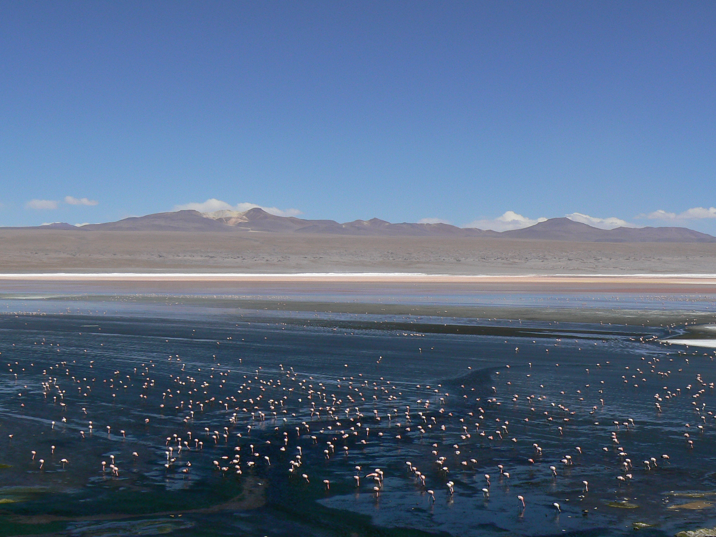 A view of Laguna Colorada in Bolivia in December 2006. Also shows James's aka Puna Flamingos (Phoenicopterus jamesi) and Andean Flamingos (Phoenicopterus andinus).